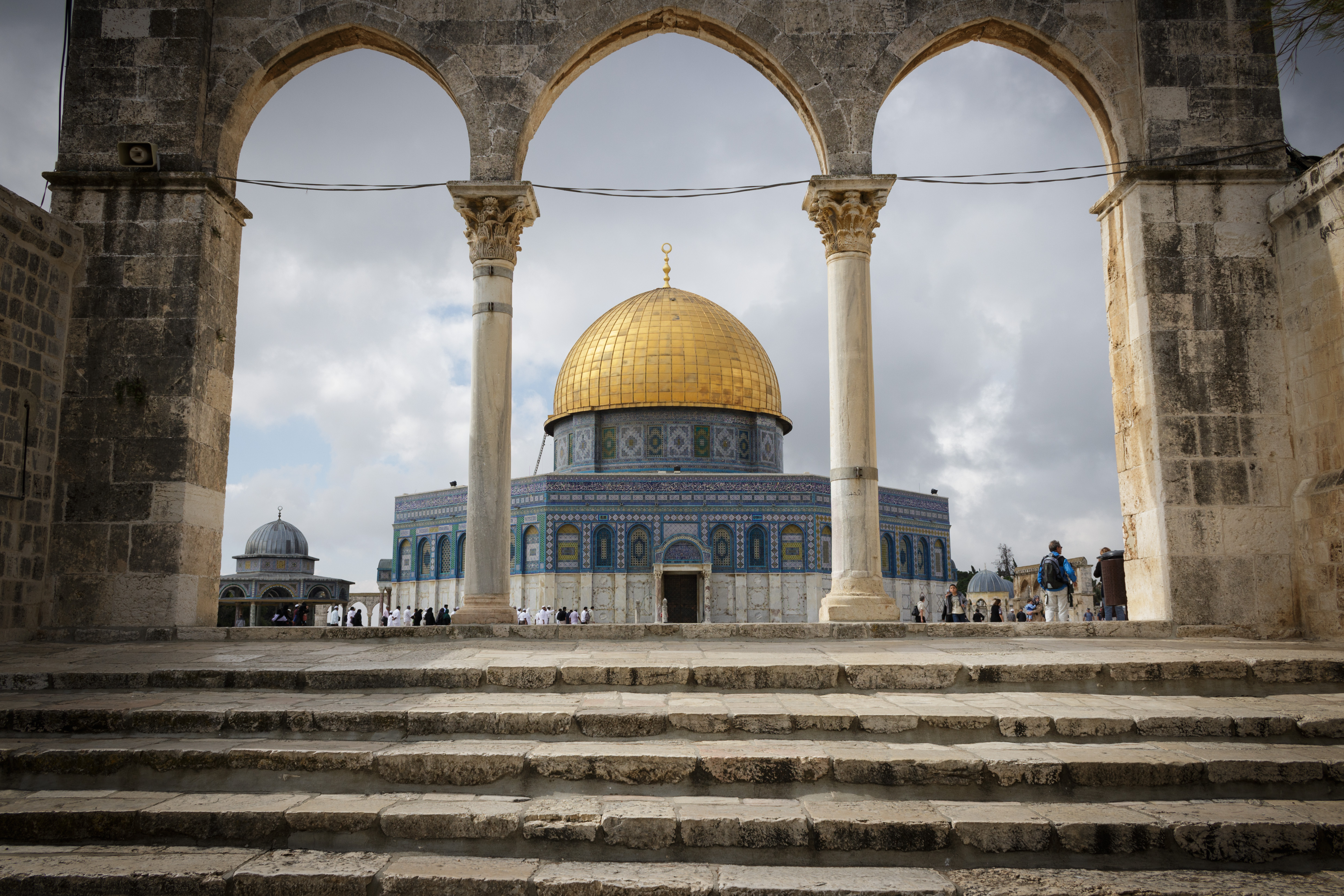 Dome of the Rock viewed through the arches (qanatir) located towards the northern end of the Temple Mount.